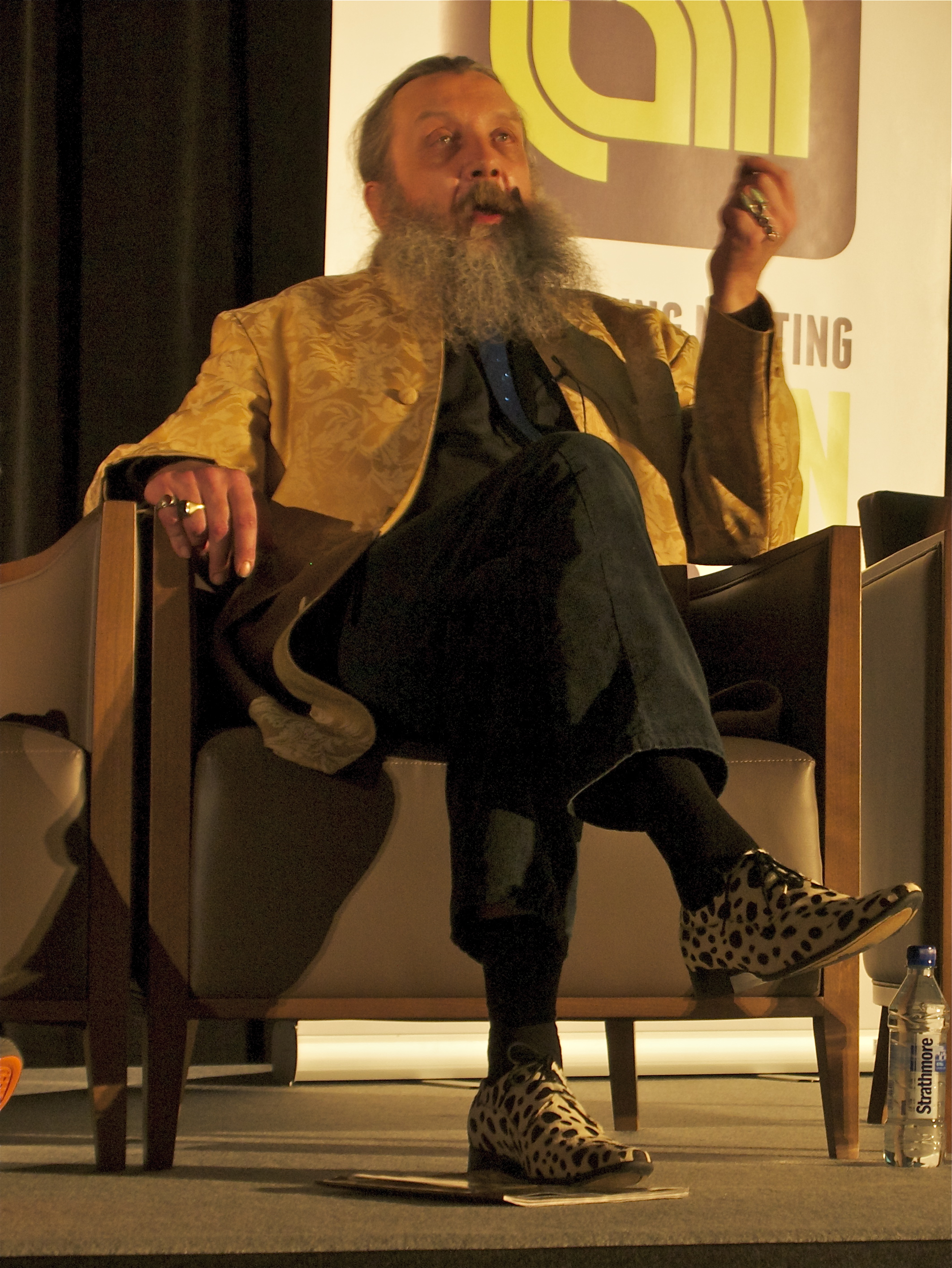 Alan Moore at TAM London 2010.